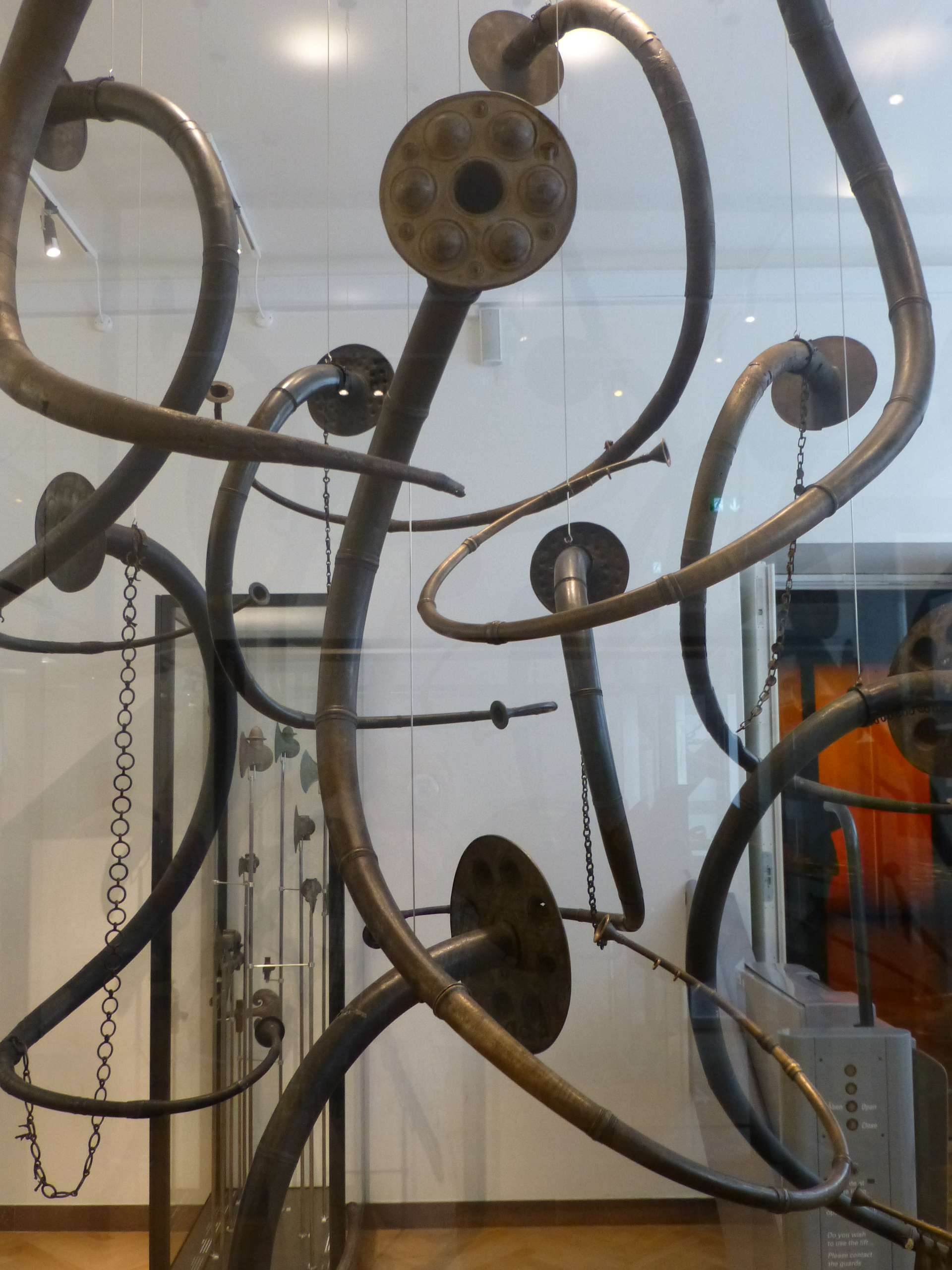 A collection of lur (ancient musical instruments) on display in the National Museum, Copenhagen